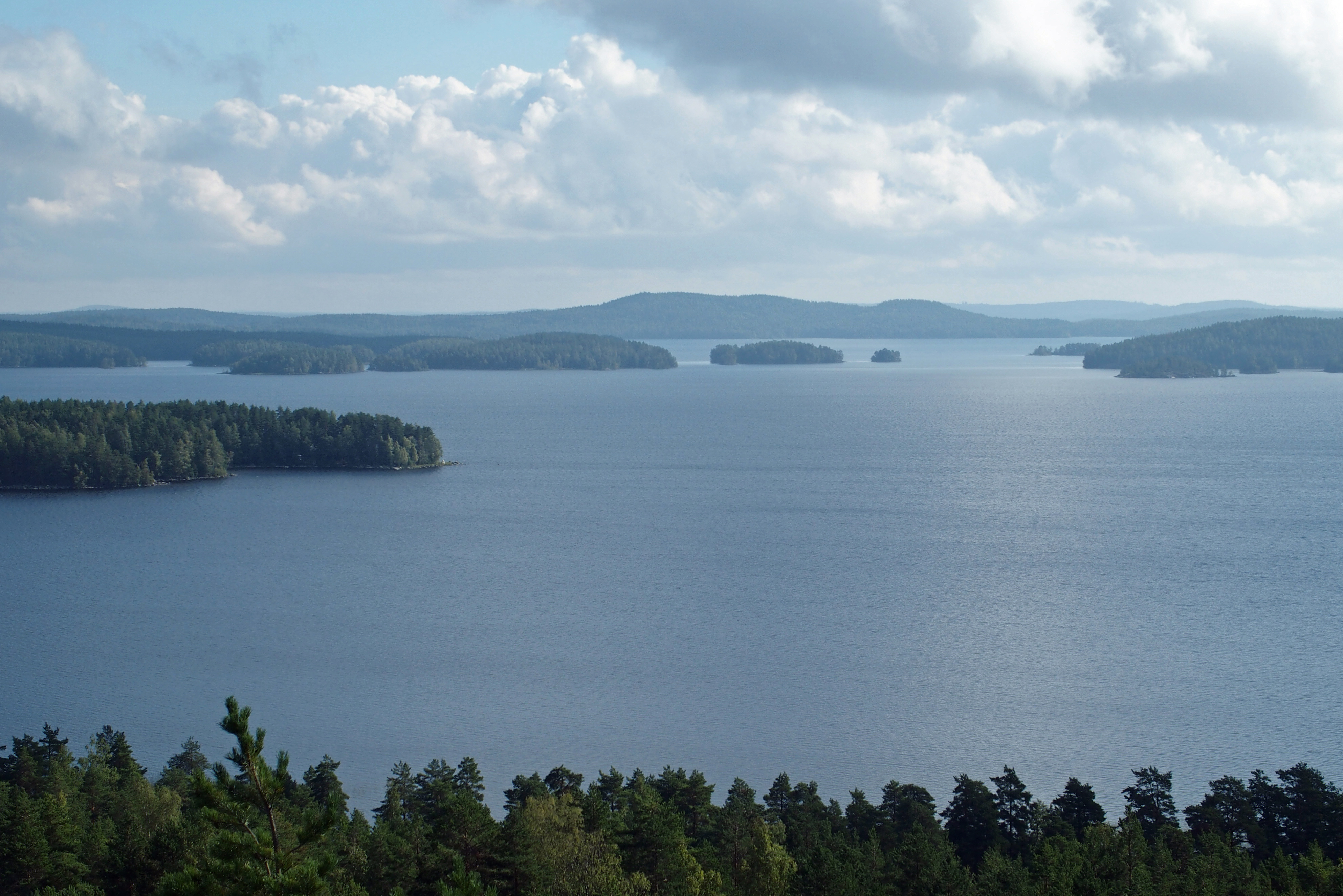 Päijänne lake seen from Kullasvuori towers in Padasjoki Finland